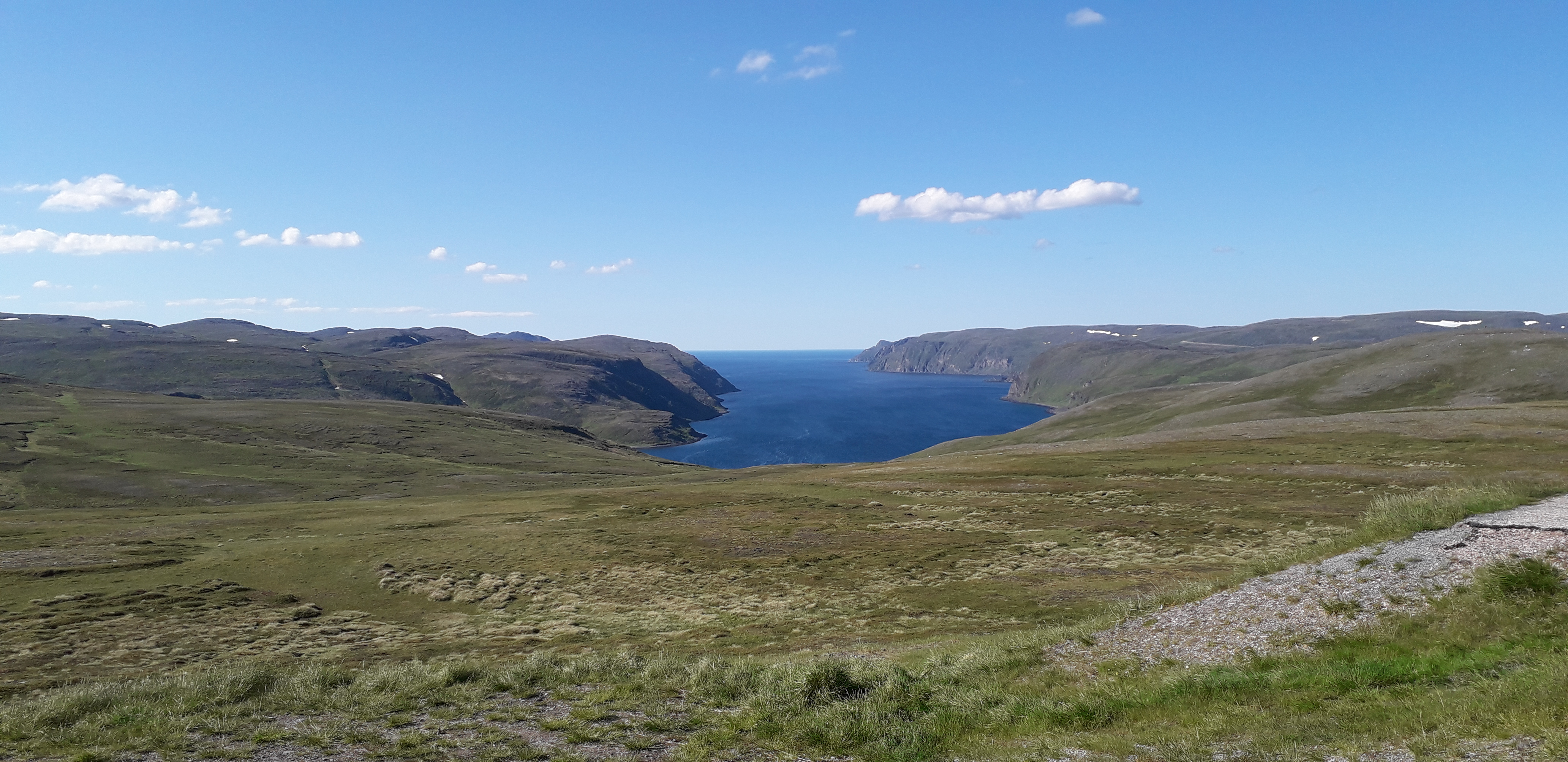 Magerøya summer scenery. View from Aurora View Parking